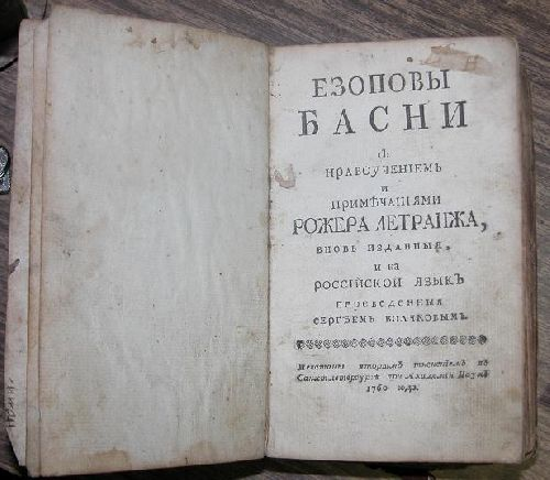 Cover of the book translated by S.S.Volchkov